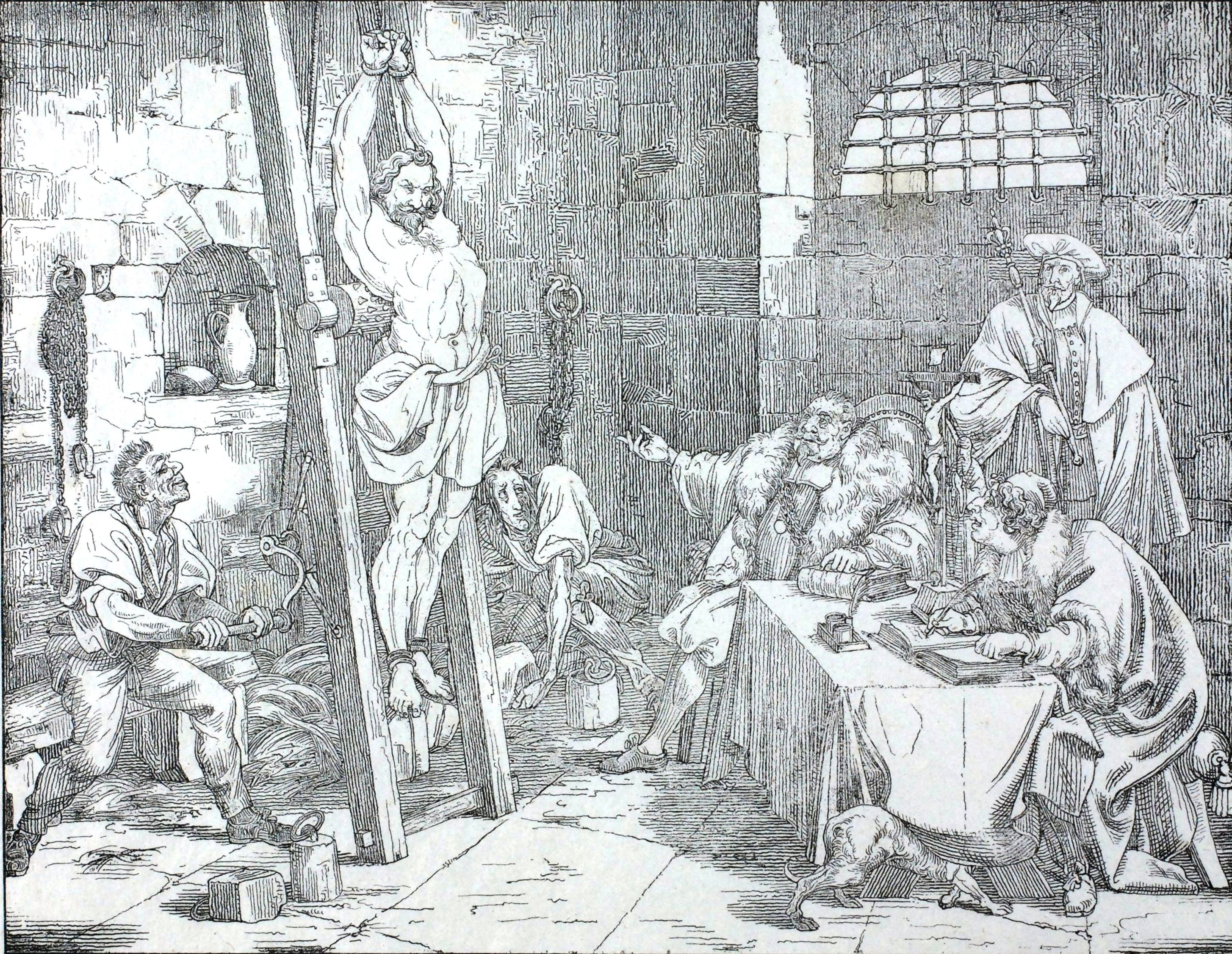 Christian Schybi, a peasant leader in the Swiss peasant war of 1653, is tortured and interrogated at Sursee, where he was beheaded on July 9, 1653 (Gregorian calendar). This 19th century engraving depicts Schybi in an allegory on the crucified Christ.